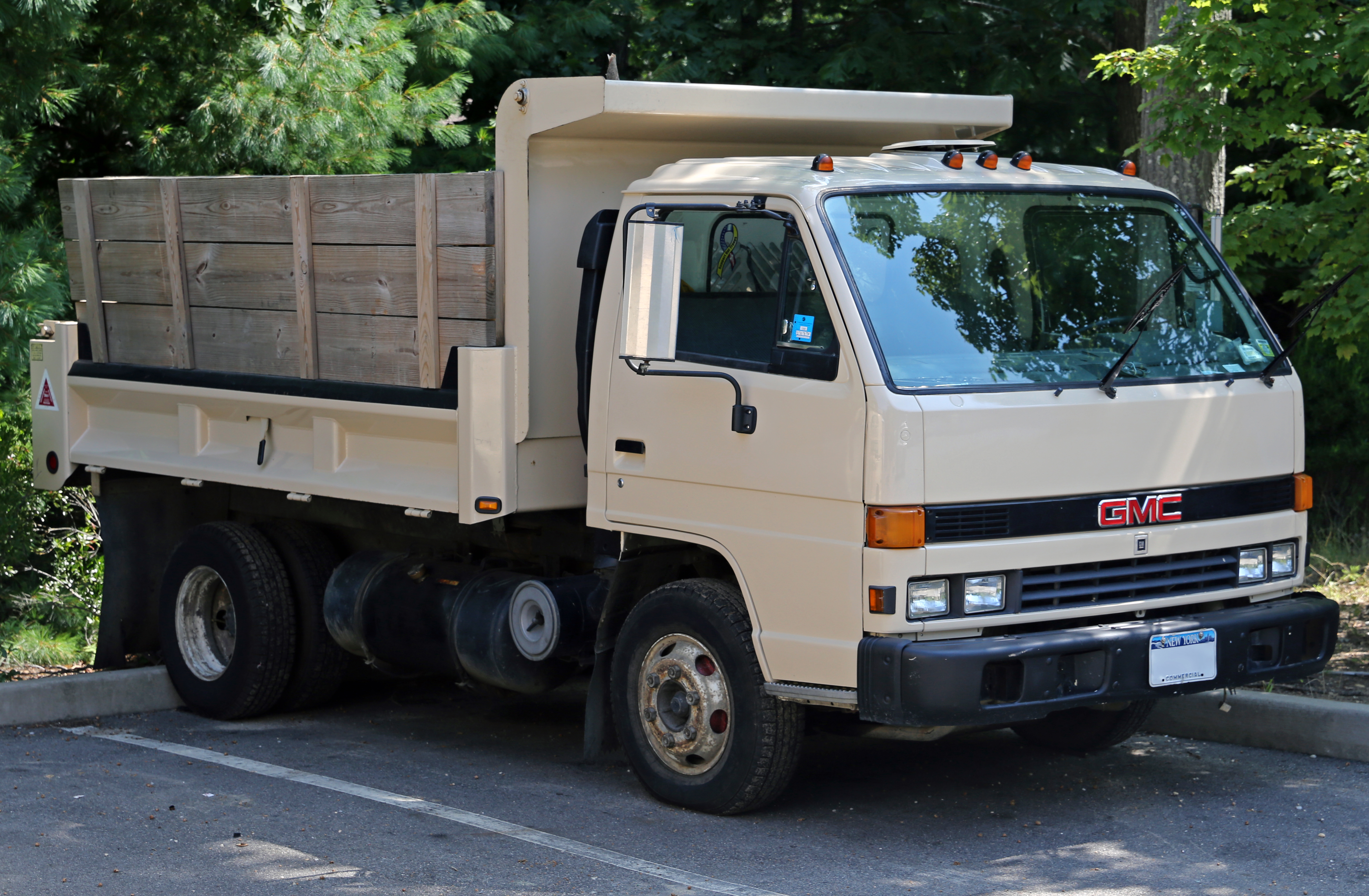 A 1993 GMC Forward W4 (W4000) tipper truck. This example was built in Isuzu's Fujisawa plant and has their 3.9 litre turbodiesel 4BD1-TC inline-four engine.